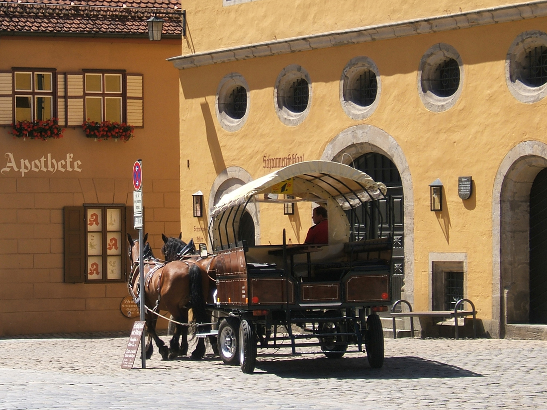 Covered wagon drawn by a pair of horses, used for sight-seeing tours in Dinkelsbühl, Germany